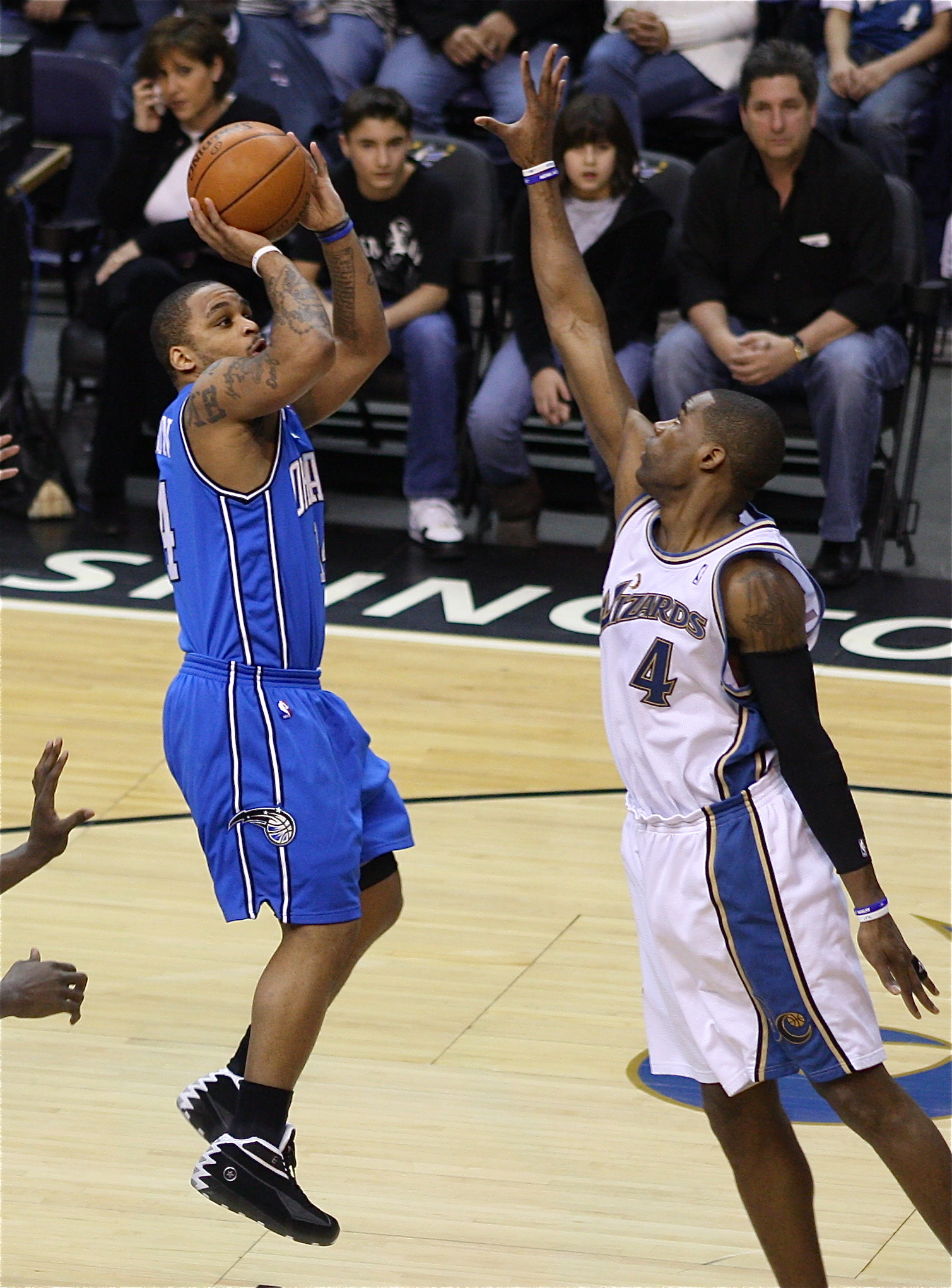 Jameer Nelson playing with the Orlando Magic